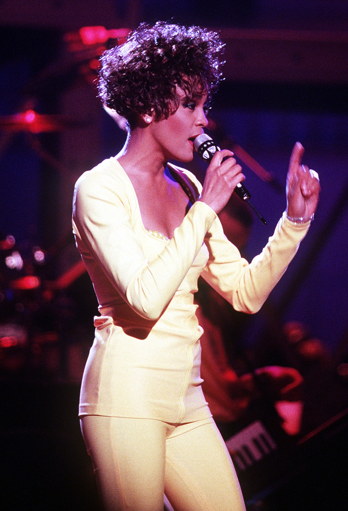 Whitney Houston talking to the audience before proceeding to perform "Saving All My Love for You" during the HBO-televised concert "Welcome Home Heroes with Whitney Houston" honoring the troops, who took part in Operation Desert Storm, their families, and military and government dignitaries.